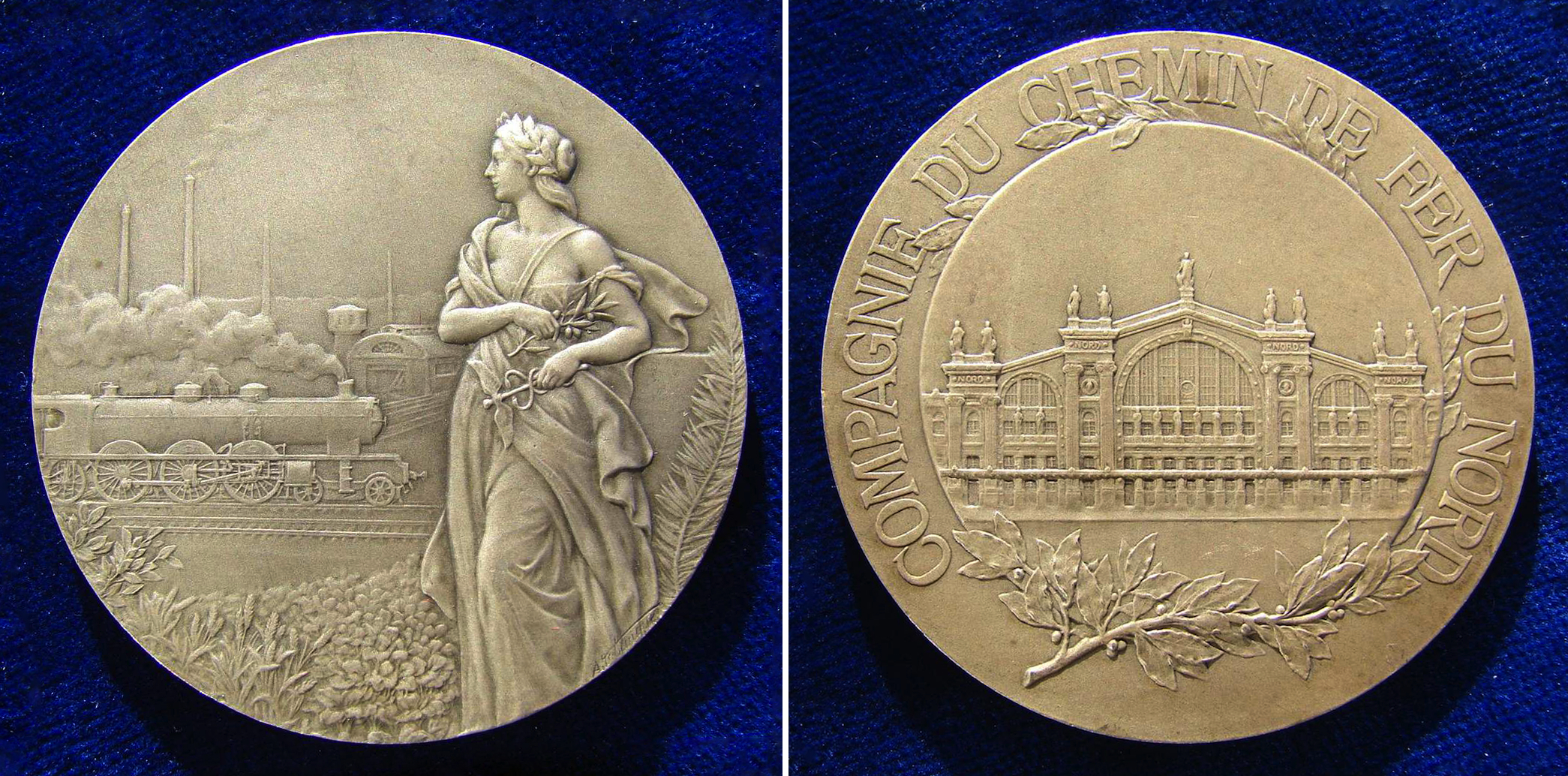 Paris late Art Nouveau Silver Medal Gare du Nord D.= 50 mm. 59.12 Ag (Edge lettering "ARGENT") This medallion was issued after 1919, when the first Pacific Locomotives Model 231 were delivered from USA to the Compagnie du Chemin de Fer du Nord . The 231 Locomotive was called the Pacific because the very first one of that series was sold to New Zealand Railways in 1901. The Paris railway station Gare du Nord as seen from the street, below a laurel branch, curved above: "COMPAGNIE DU CHEMIN DE FER DU NORD"/ At r. a deity, in her left hand the caduceus of Mercury, the protector of commerce, looking l. towards a 231 Pacific locomotive staming r. In the background industrial chimneys, and a railway water tower. Auction 86 Rauch GmbH Vienna 12.05.2010 Lot 2673. Medallist: A. Lebarque. Condition: Nicely toned UNCIRCULATED